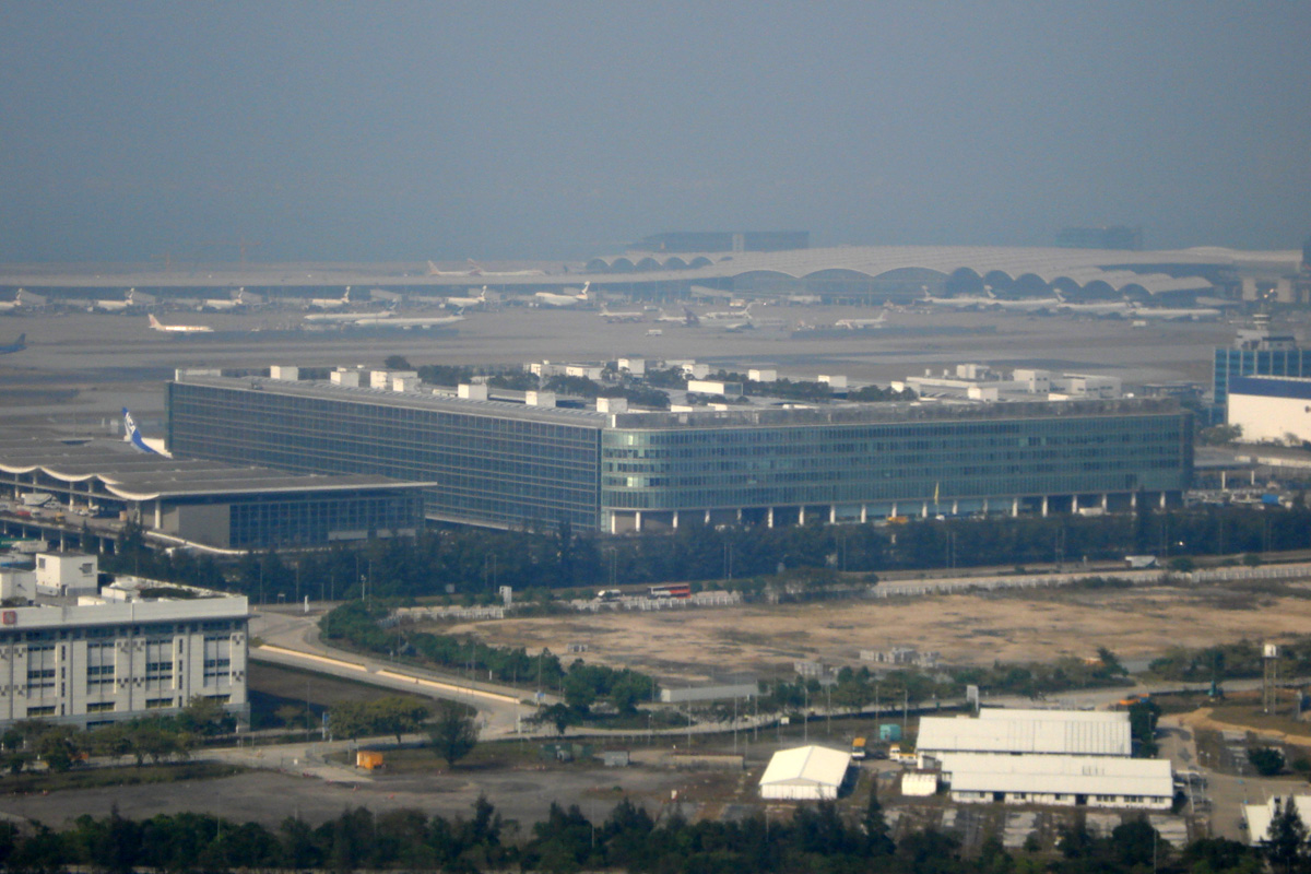 Super Terminal One